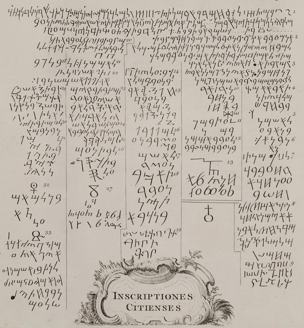 Richard Pococke. A Description of the East, and some other Countries, London, W. Bowyer, MDCCXLV (1743-1745)